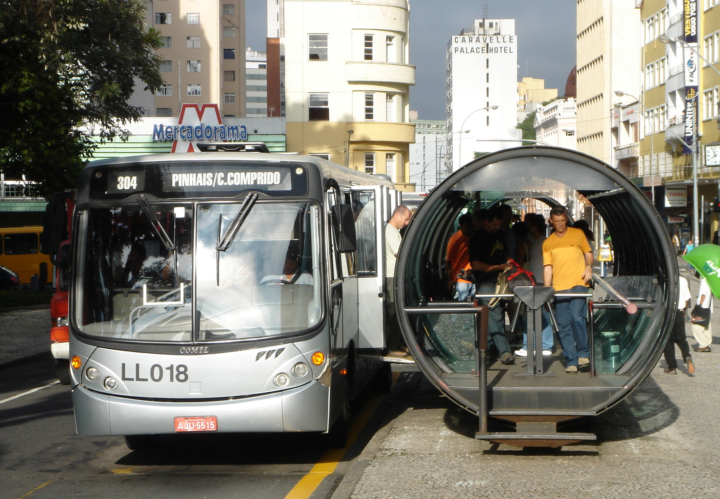 Comil bus (reg. AJU-5515, #LL018) at Tiradentes Square tube station, RIT system in Curitiba, Brazil.